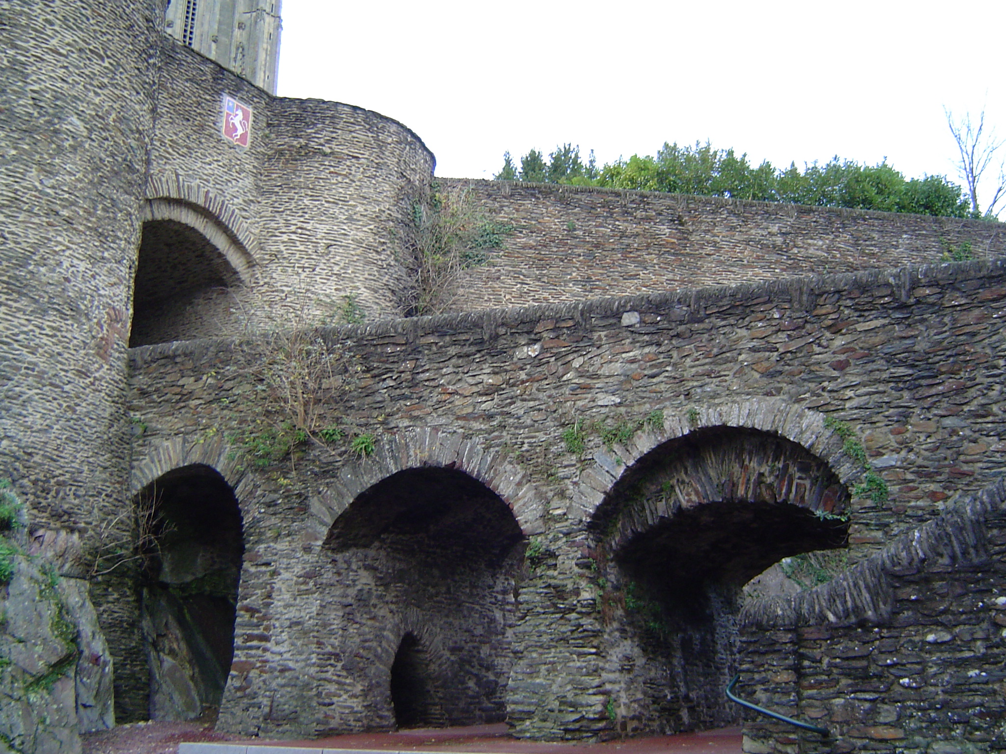 Remparts of Saint-Lô